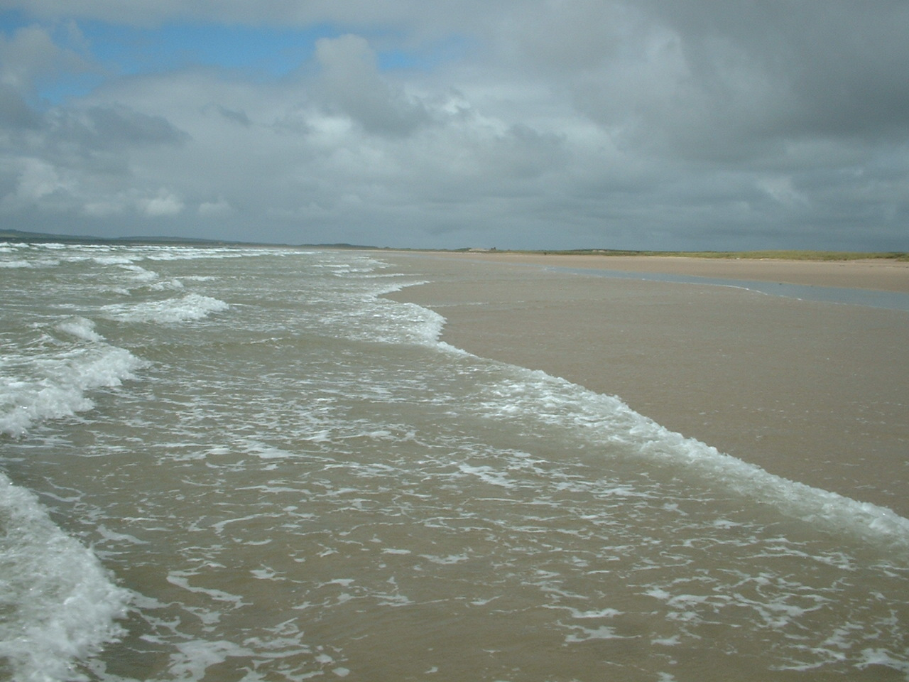 Ray Husthwaite, 2006 Personal Photograph Big Strand, Islay